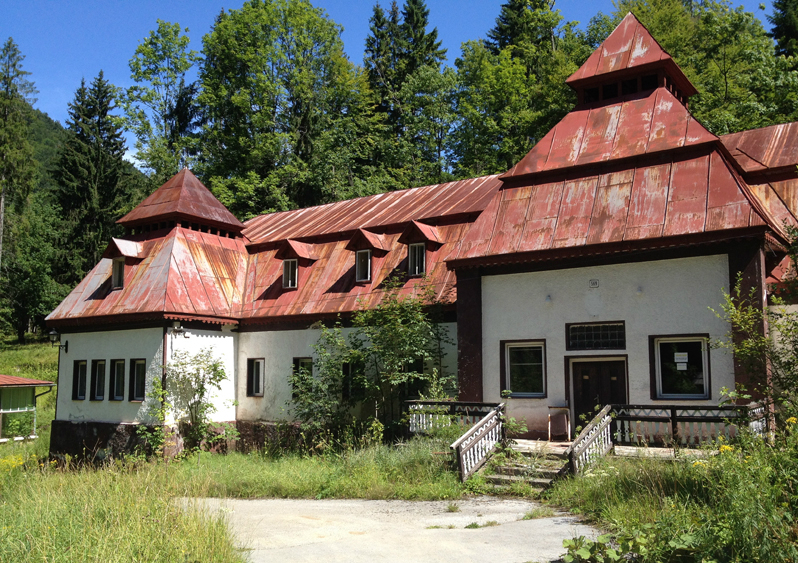 Korytnica spa